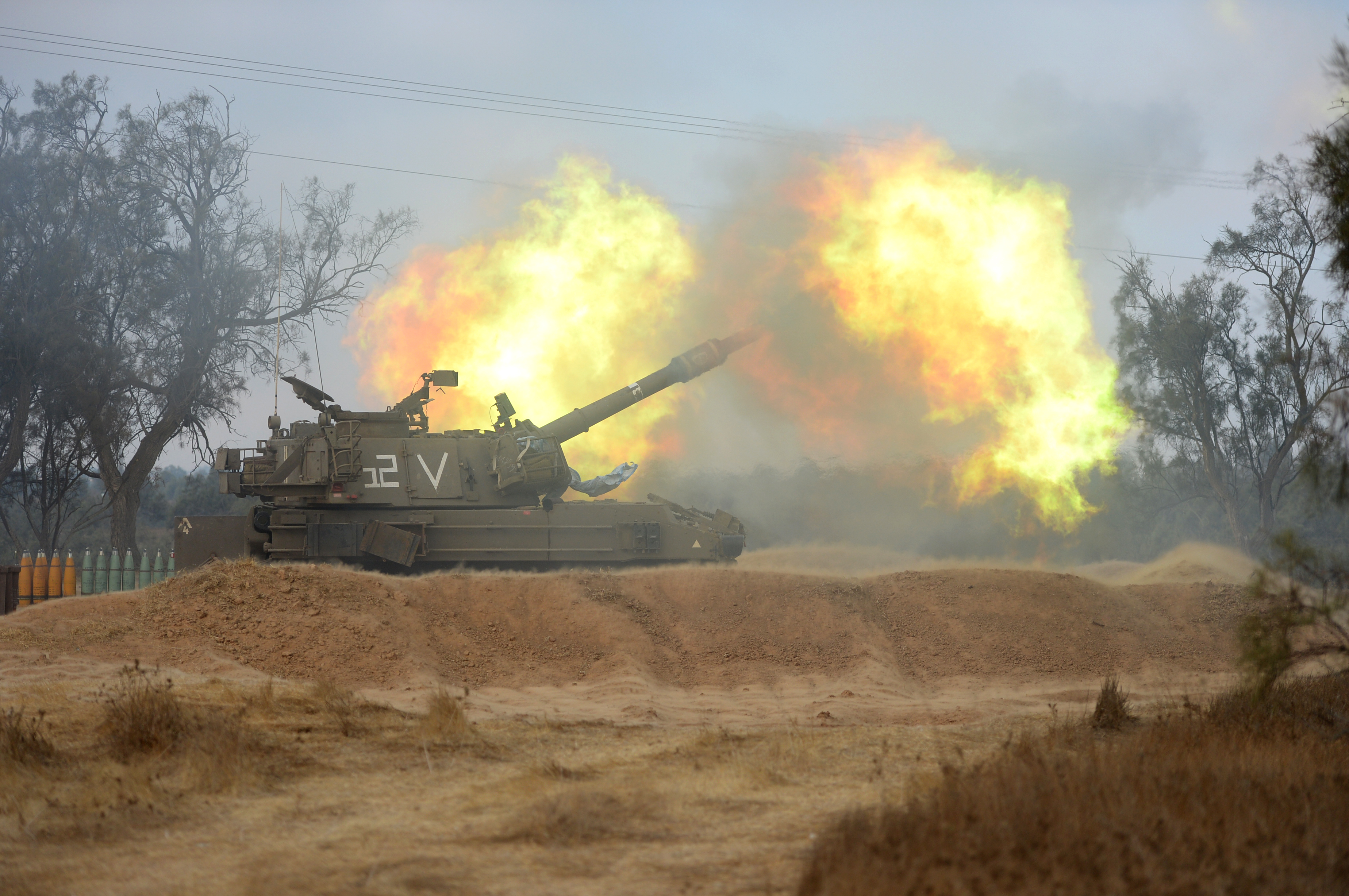 IDF Artillery Corps fires 155 mm M-109 howitzer gun during Operation Protective Edge